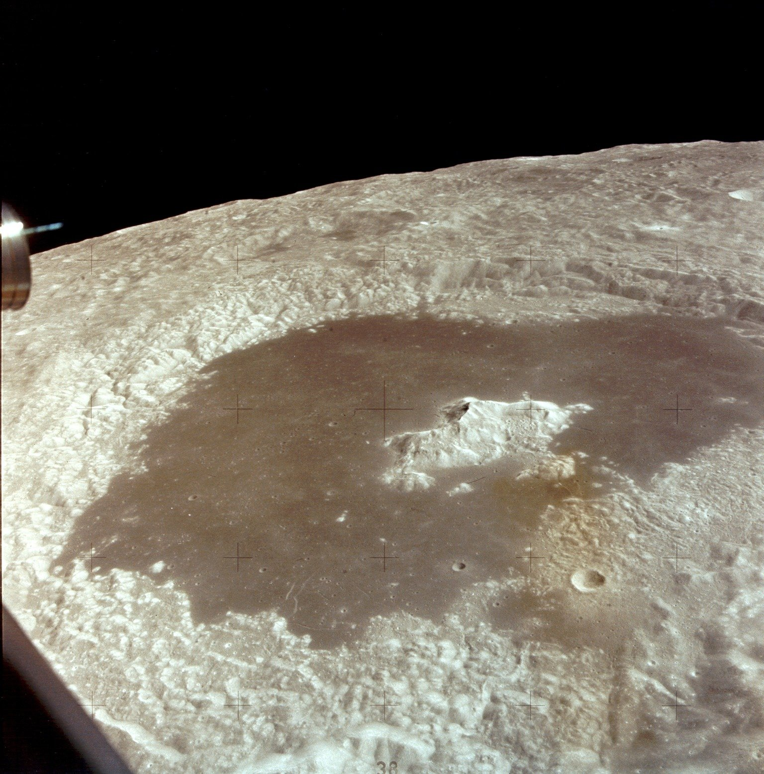 Tsiolkovsky crater on the far side of the Moon, as seen from the Apollo 15 LM. Taken by David Scott